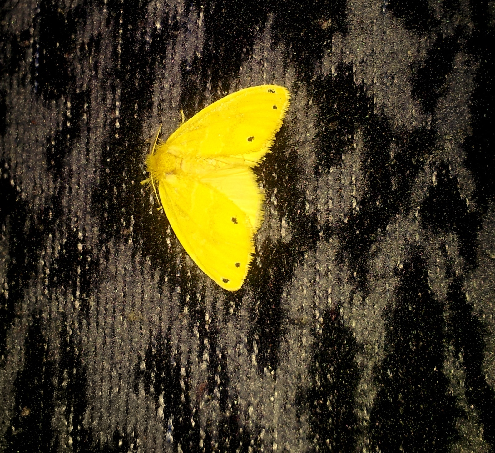 Moth sp. at Bakamuna, Sri Lanka--photographed at night